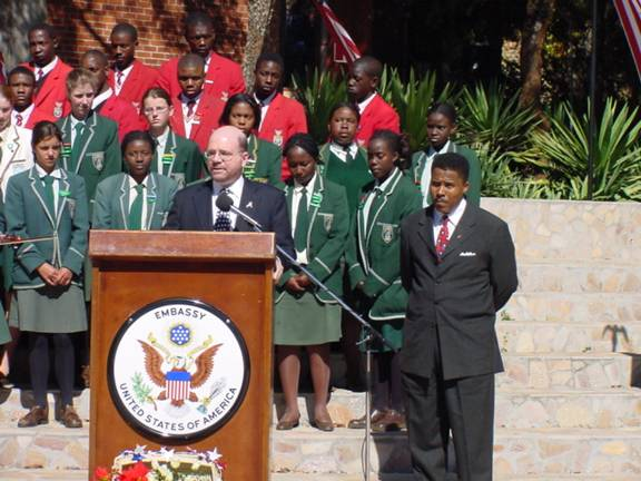 2006 Independence Day Celebrations Independence Day Celebrations at the Ambassador's Residence Ambassador Dell addresses guests while Bishop Trevor Manhanga (right) and students from Chisipite Girls High & St. Georges Boys High look on. The students also sang the national anthems.